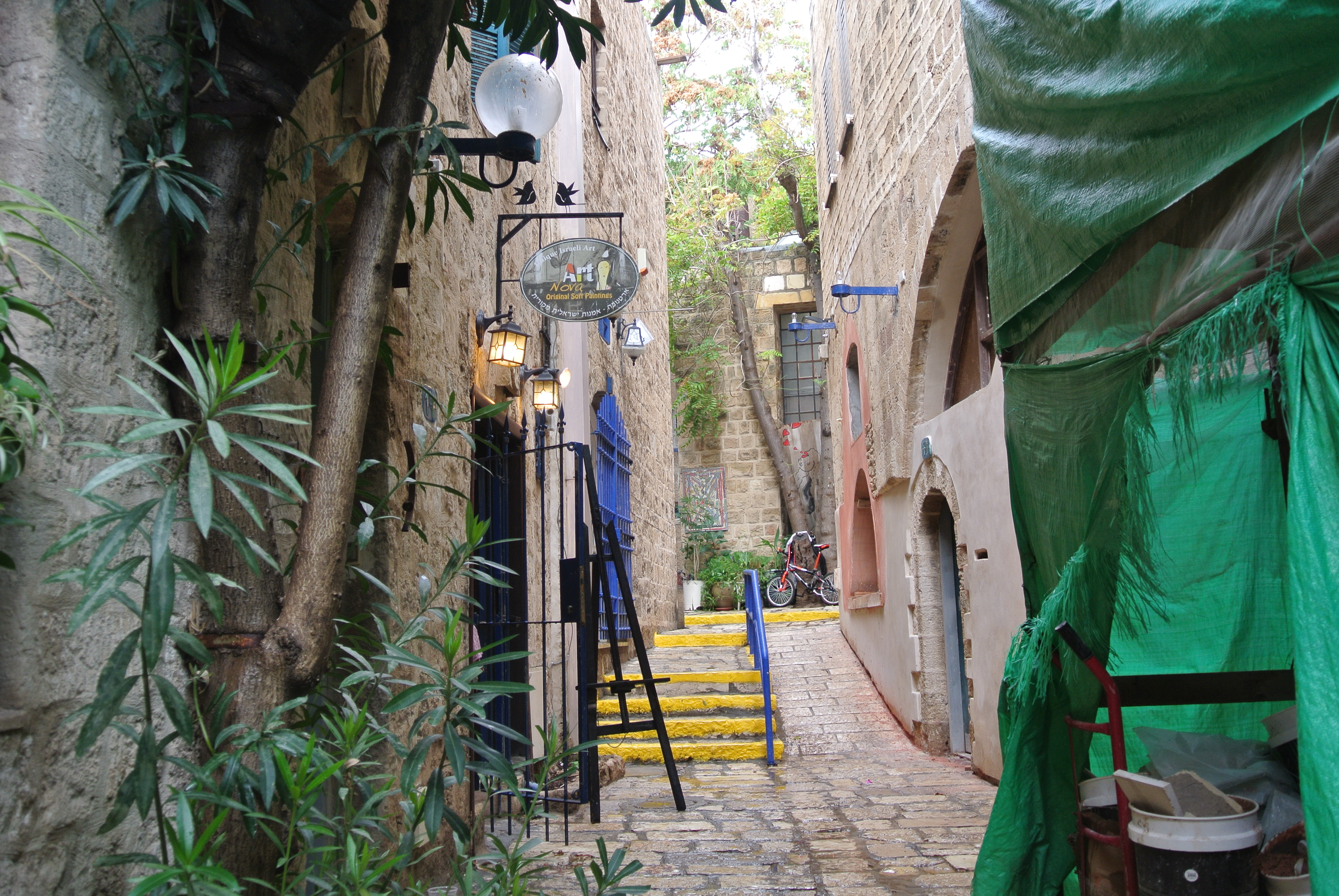 Old Jaffa, Simtat Mazal Taleh - DSC_7151